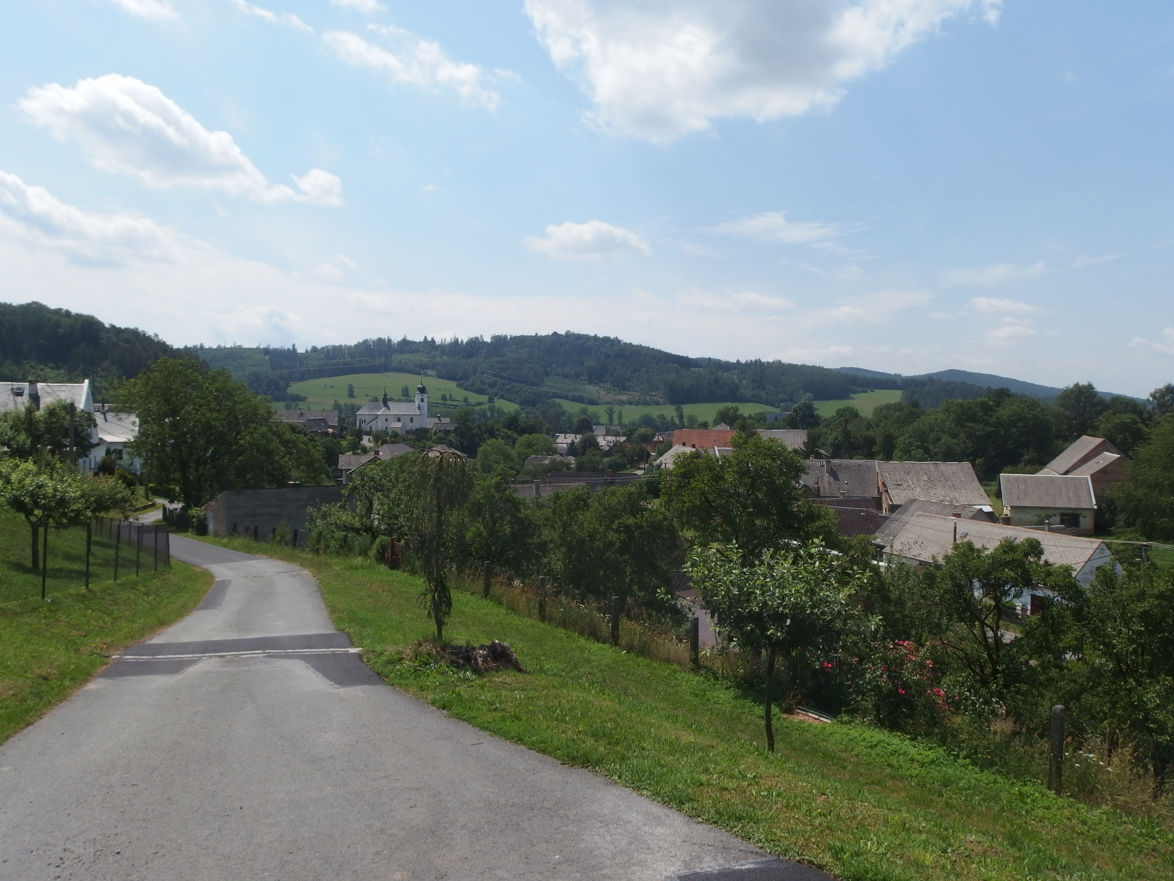 Dlouhomilov, Šumperk District, Czechia.